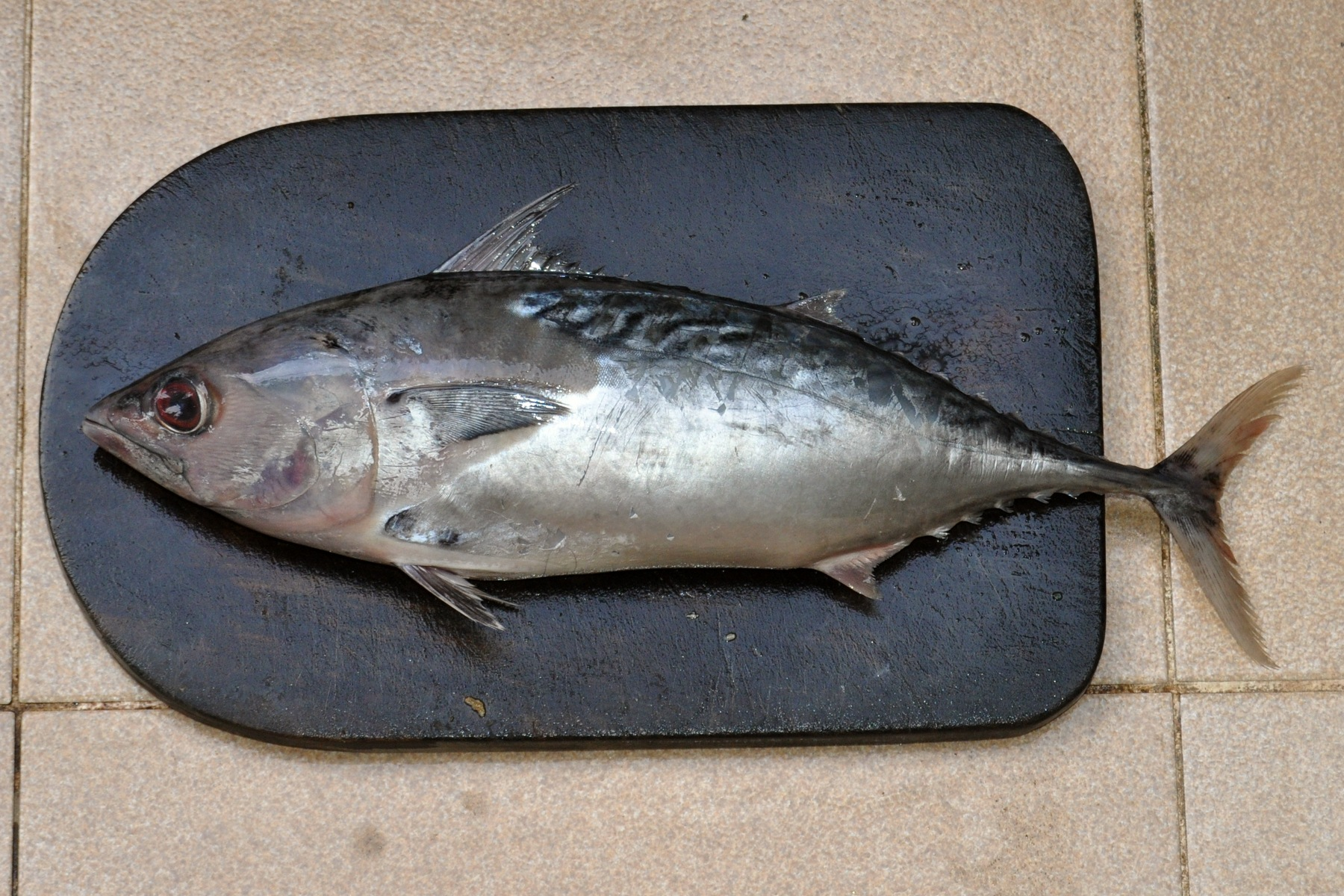 Little tuna Euthynnus affinis, ca. 30 cm FL; from local market in Jakarta, Indonesia.